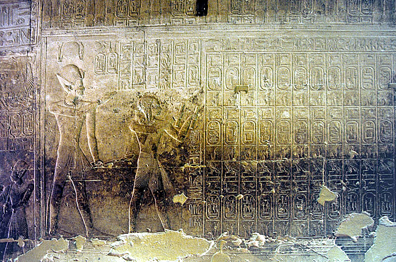 Gallery of the Lists: King Seti I and prince Ramesses before the List of Egyptian kings' names, Temple of Seti I, Abydos, Egypt